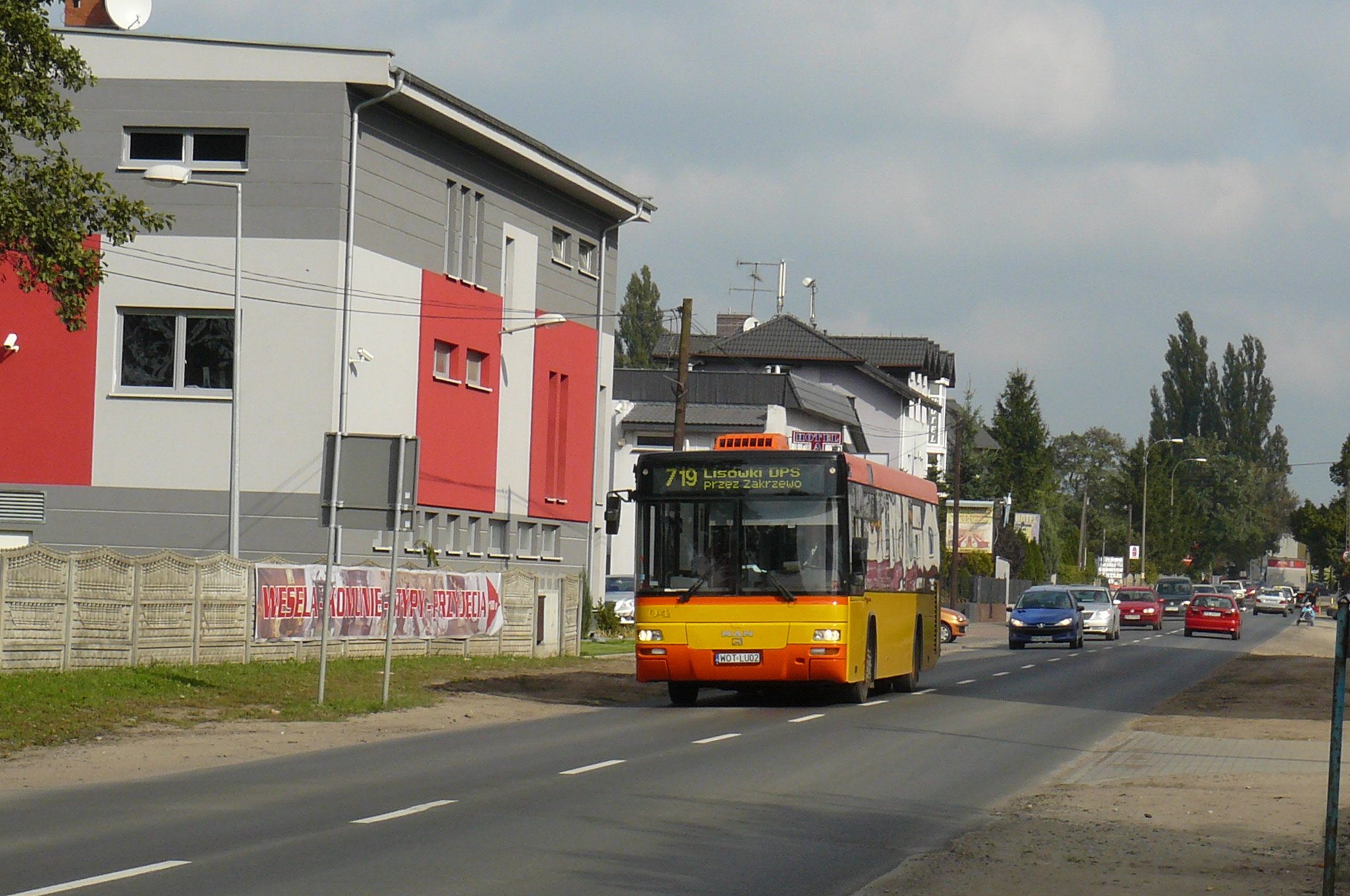 Złotowska Street, Poznań, Poland.